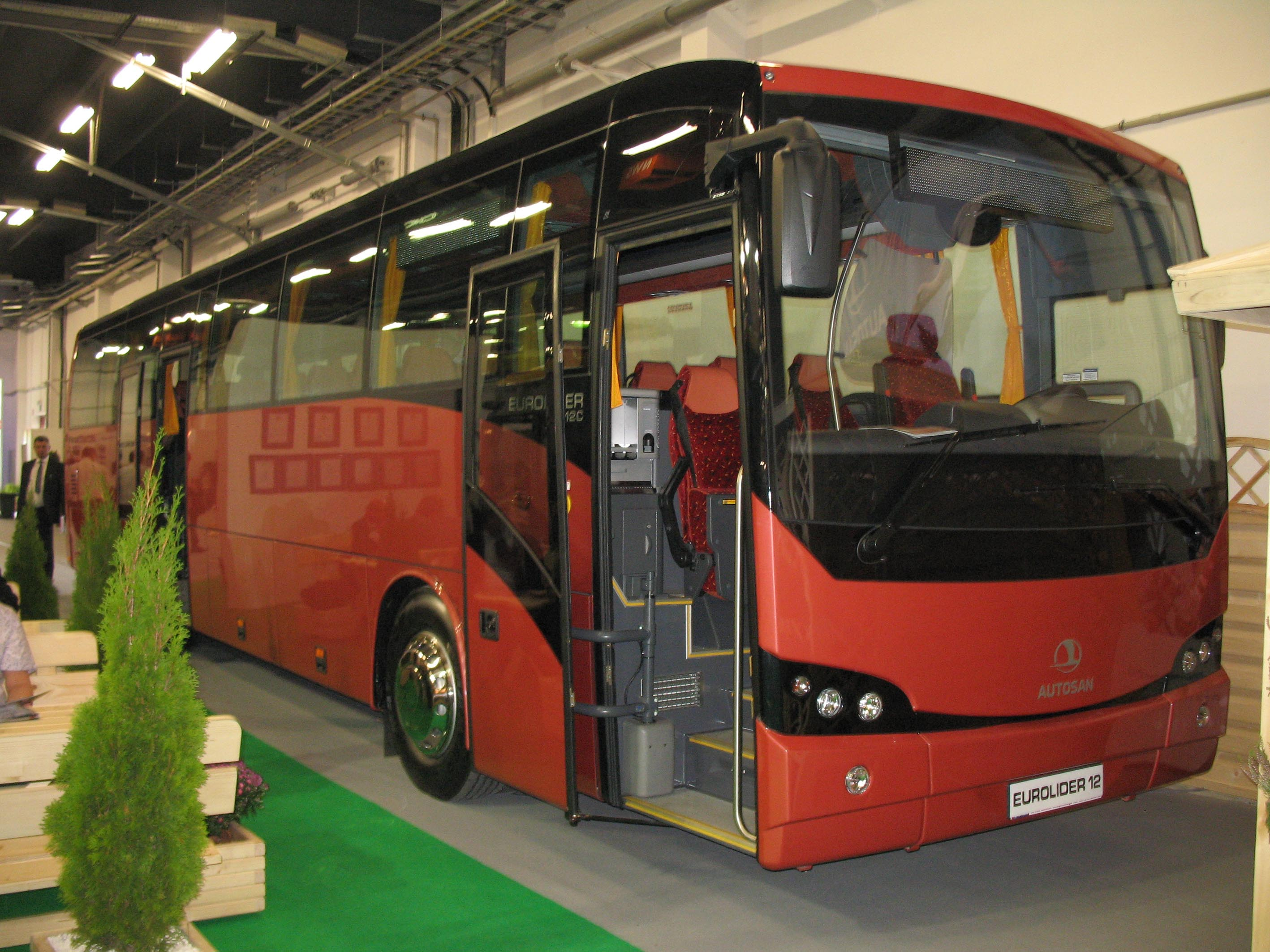 Autosan A1212C Eurolider intercity bus in Kielce, Poland. Built 2009. Transexpo 2009. From 2010 - Veolia Transport Podkarpacie in Sędziszów Małopolski operator.